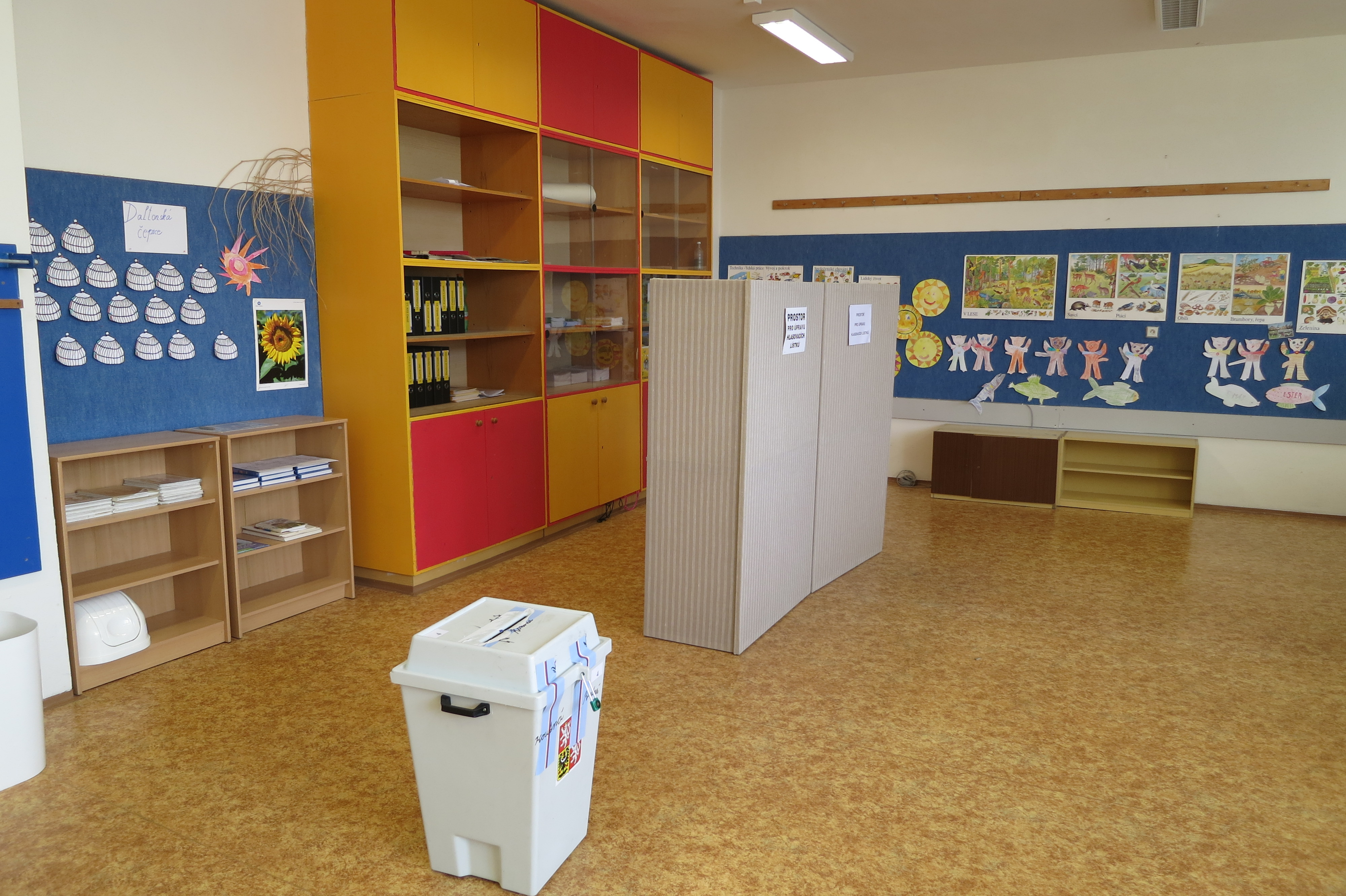 Election room of 2012 Senate nad Region elections.